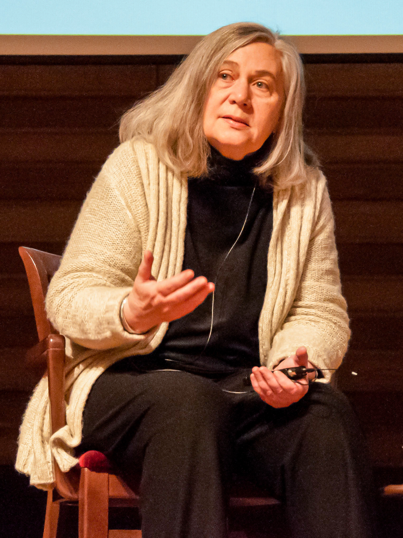 Marilynne Robinson speaking at the Covenant Fine Arts Center during an interview at the 2012 Festival of Faith and Writing at Calvin College.